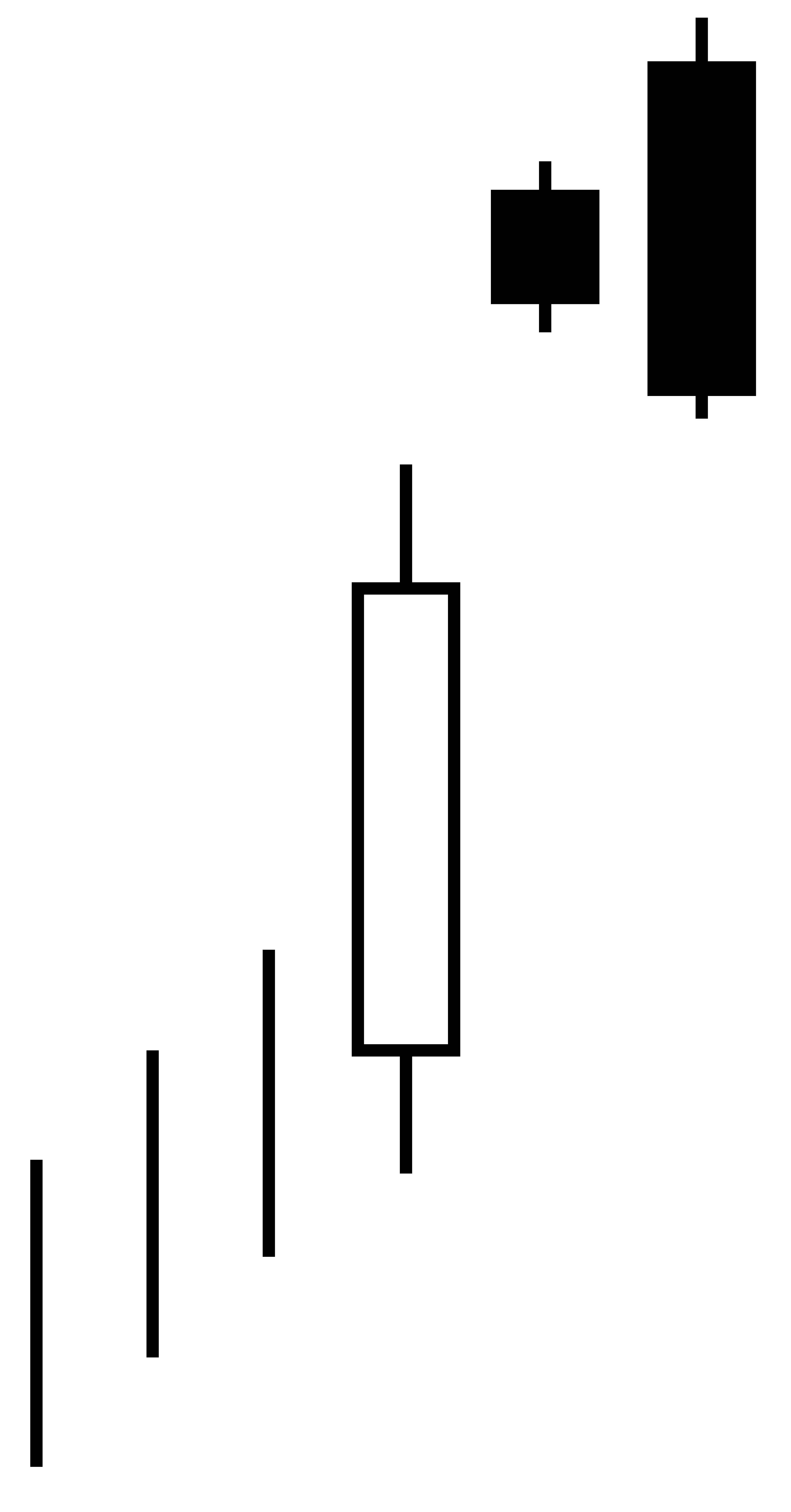 Bearish meeting lines